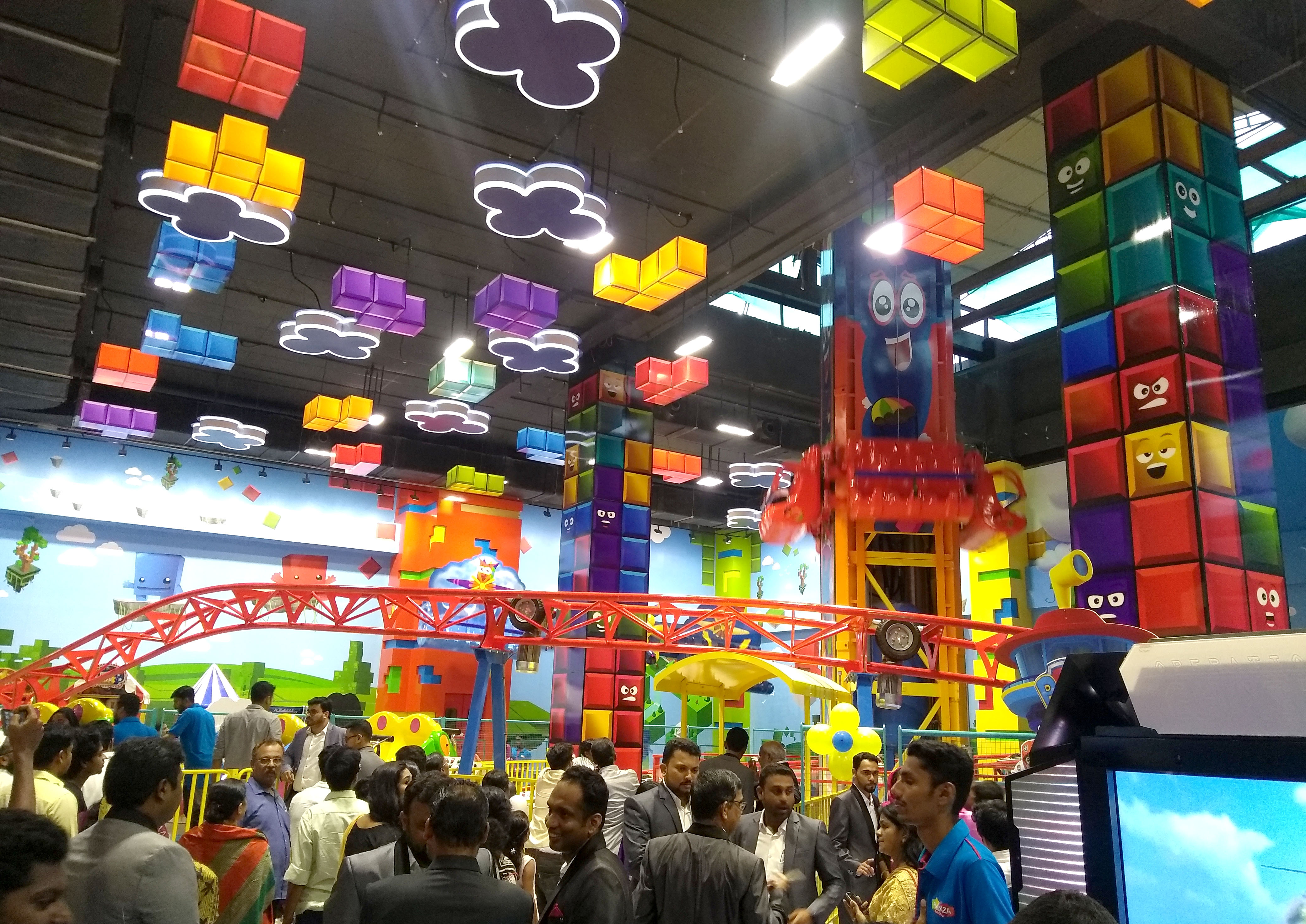 Mall of Travancore in Thiruvananthapuram city, Kerala, India.